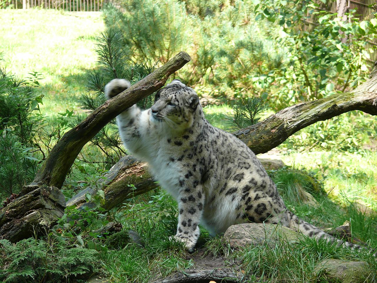 Snow leopard